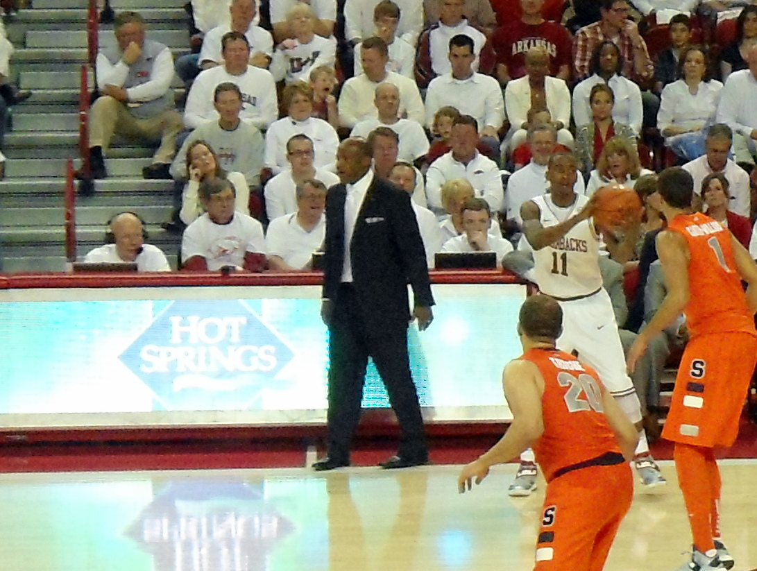 Mike Anderson coaches the 2012-13 Arkansas Razorbacks basketball team against the Syracuse Orange at Bud Walton Arena, Fayetteville, Arkansas